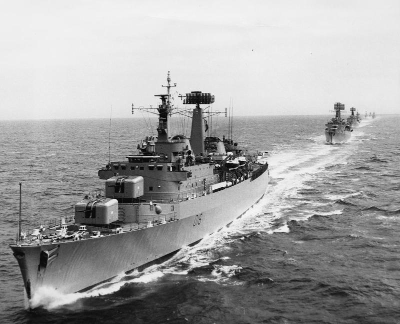 Three of the Royal Navy's Guided Missile Destroyers in the Channel after taking part in joint exercises with the RAF in the Atlantic, North Sea and Norwegian Sea. County-class destroyers HMS Norfolk (D21), HMS Antrim (D18) and HMS London (D16) are present. Prince Charles was serving aboard the Norfolk at this time, December 1971 (IWM HU 129890)